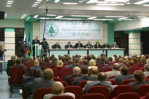 XIII Congress Russian Ecological Party "The Greens"